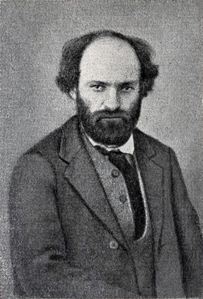 Paul Cézanne